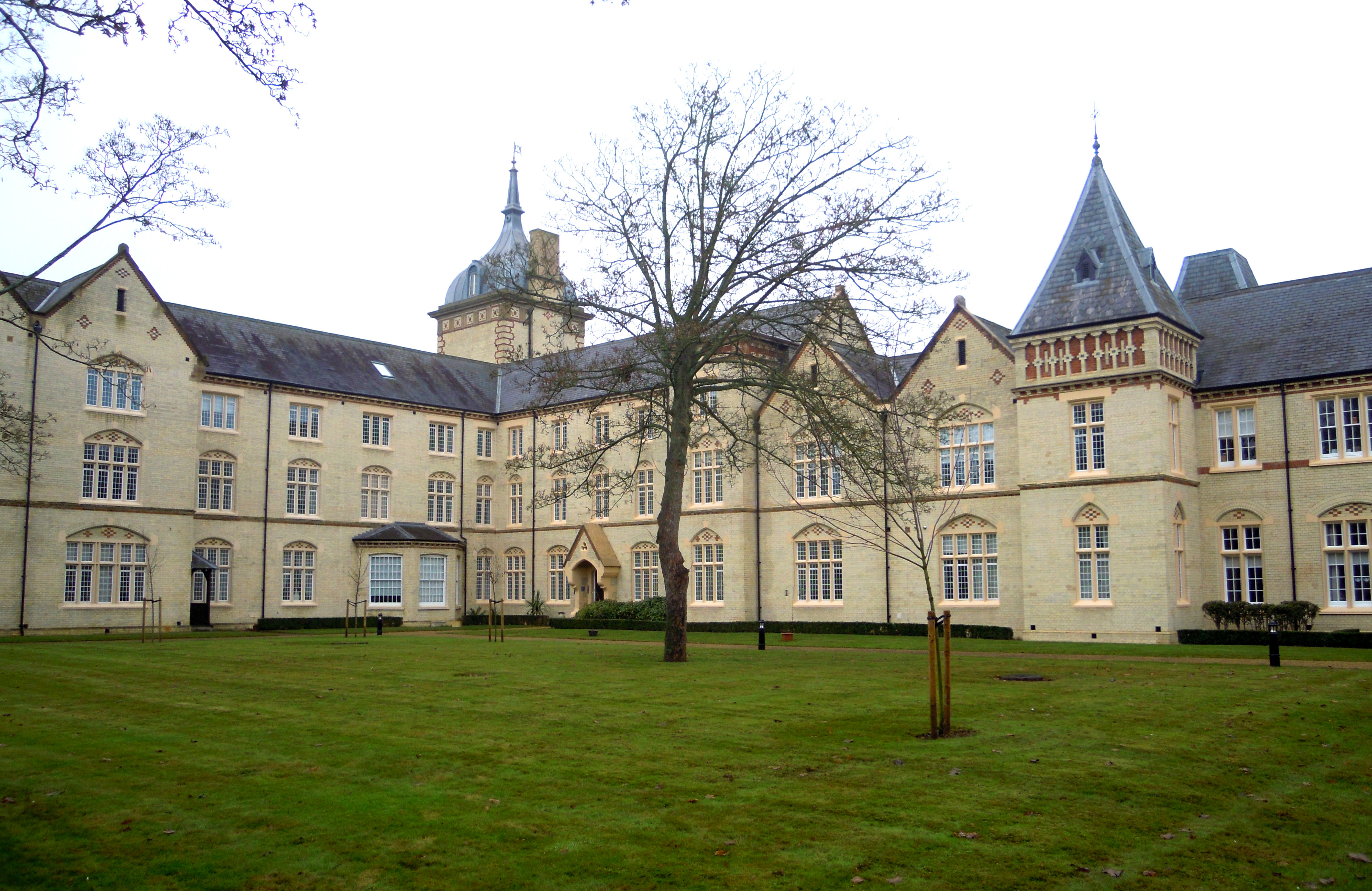 Section of the former main hospital block at Fairfield Hospital in Bedfordshire